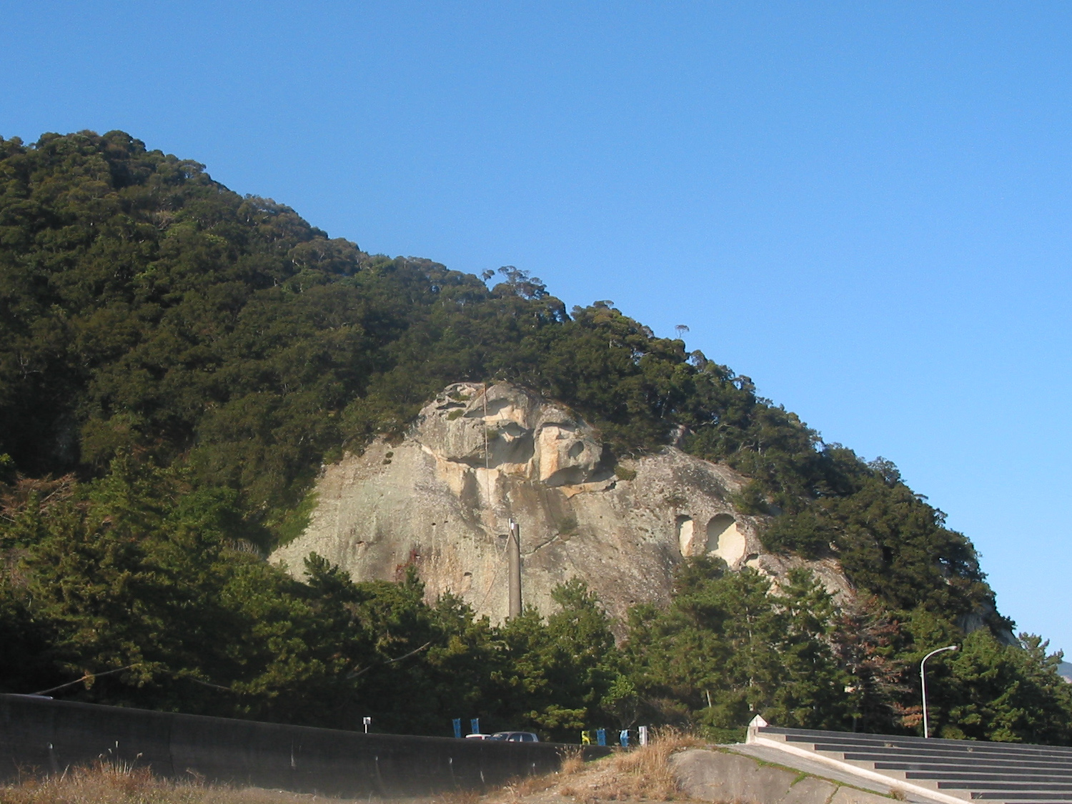 Huge rock of the Hananoiwaya-jinja(Sacred Sites and Pilgrimage Routes in the Kii Mountain Range) view from The "Shichirimihama" I took this image. 七里御浜から見た世界遺産紀伊山地の霊場と参詣道に登録されている花窟神社の神体である巨岩 三重県熊野市有馬町で撮影。